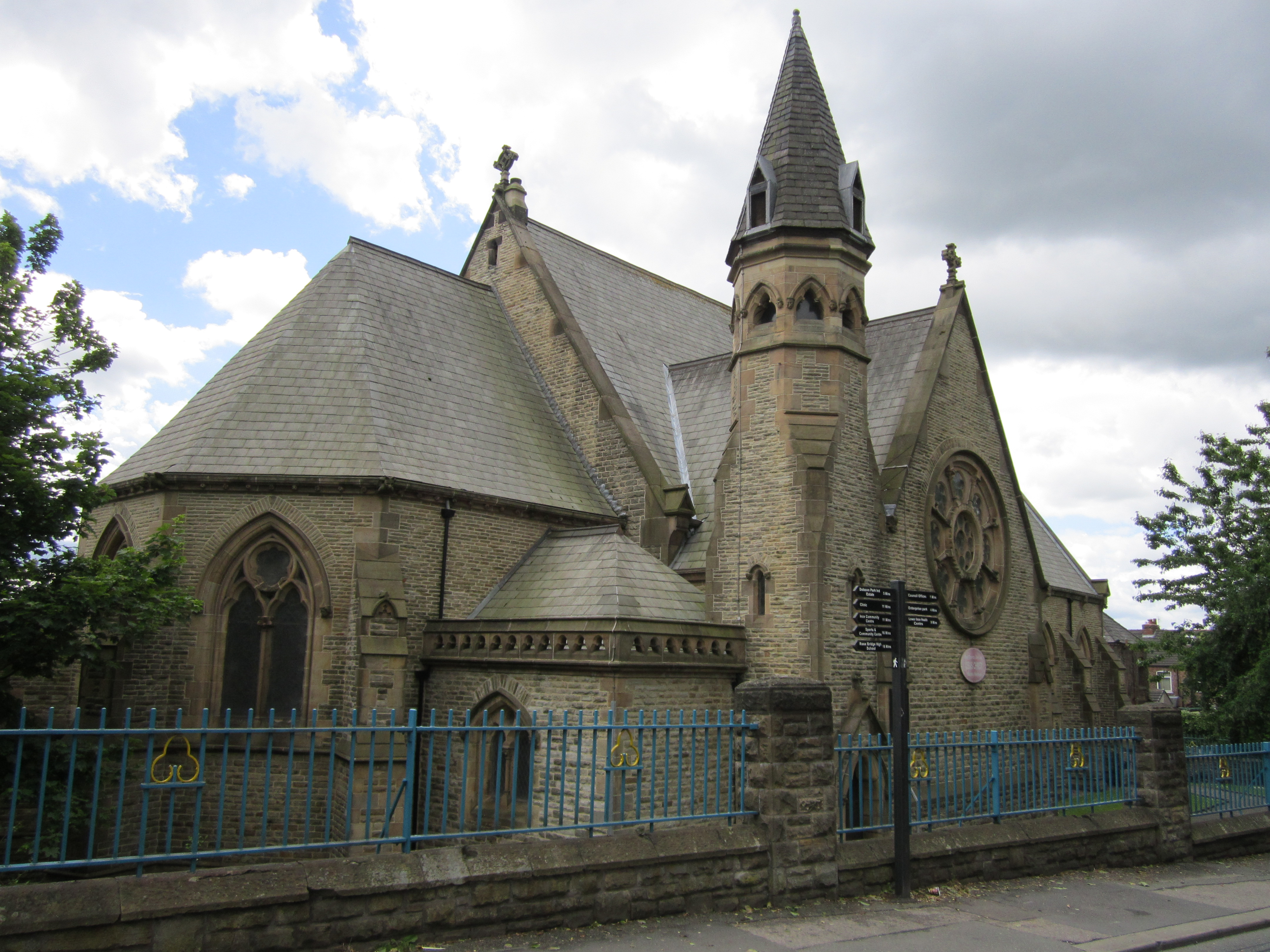 Christ Church, Ince-in-Makerfield, view from outside Ince railway station, Wigan, Greater Manchester, England.